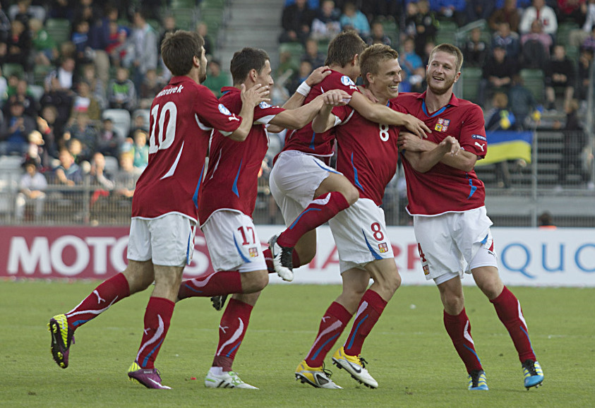 Players from Czech Republic national under-21 football team after Bořek Dočkal's (no. 8) 2-0 goal against Ukraine at Viborg Stadion in 2011 UEFA European Under-21 Football Championship.